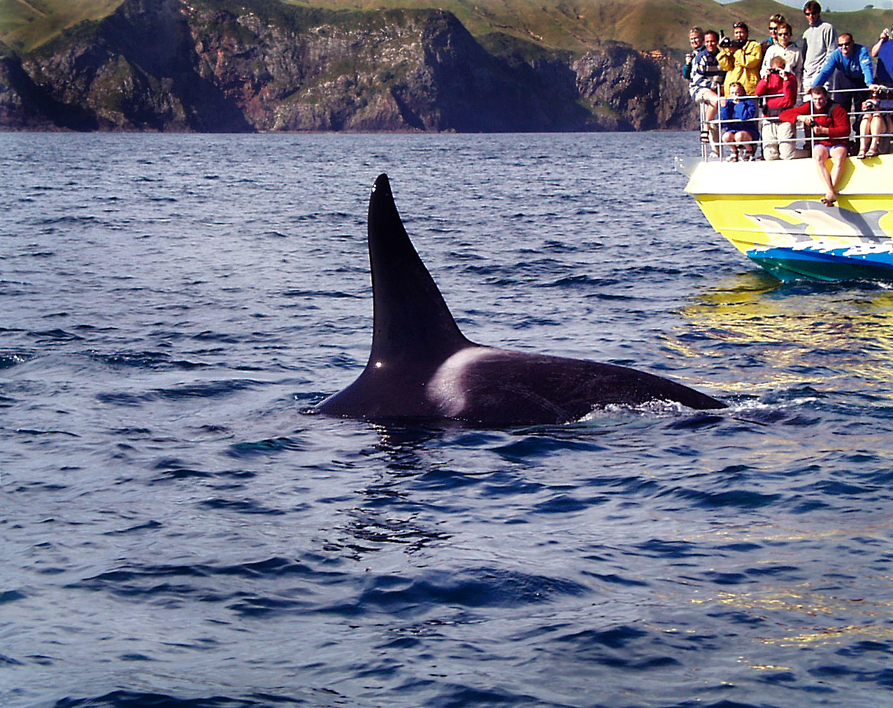 Orca (Orcinus orca), Paihia, New Zealand